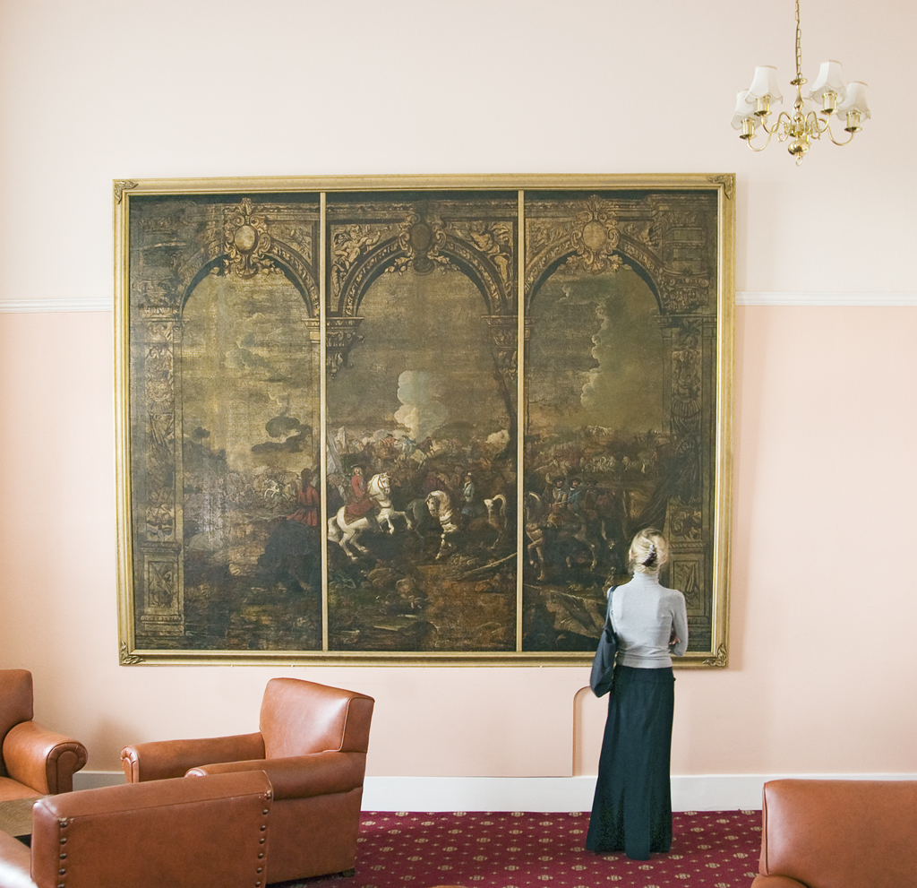 Marlborough Room Royal Military Academy Sandhurst England showing tryptch on leather of the Battle of Blenheim by Horensburg.